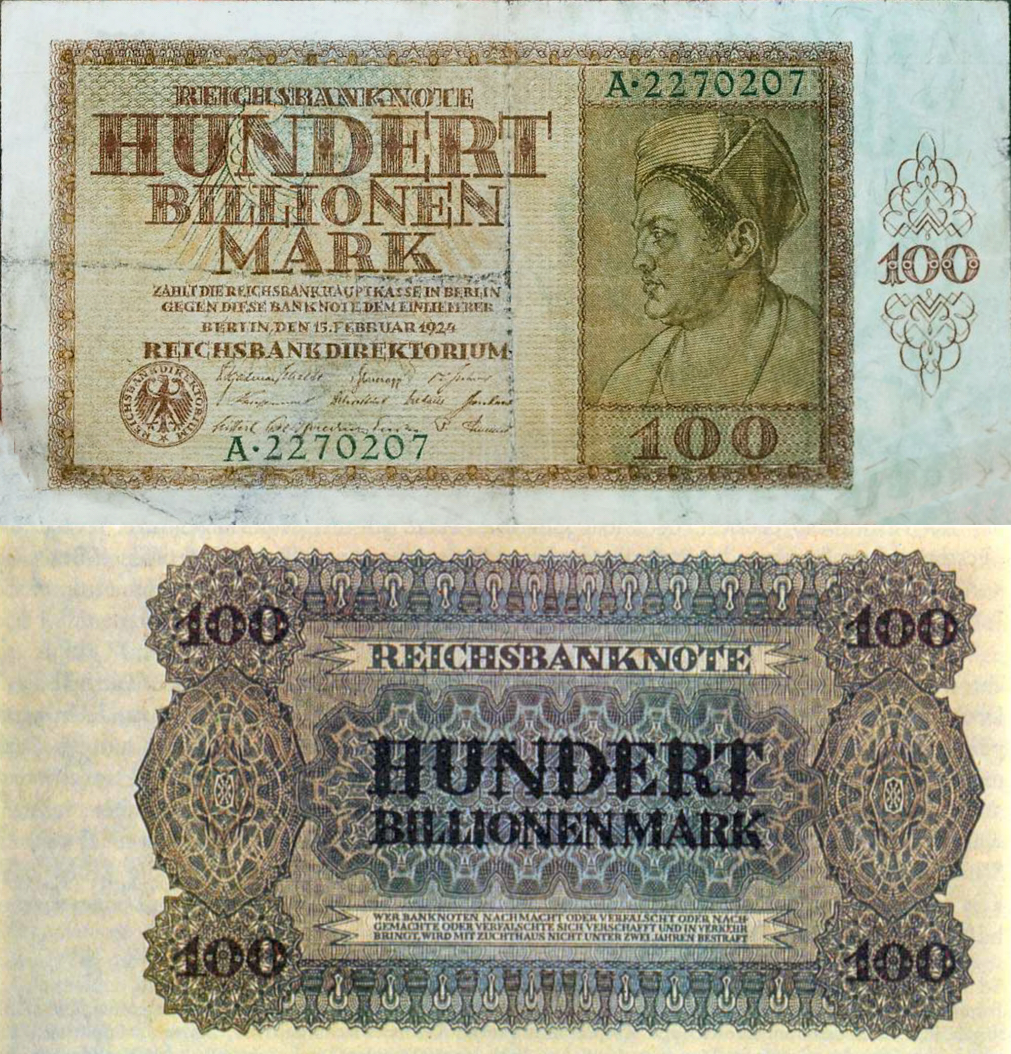 100 Trillion Mark from 1924-02-15